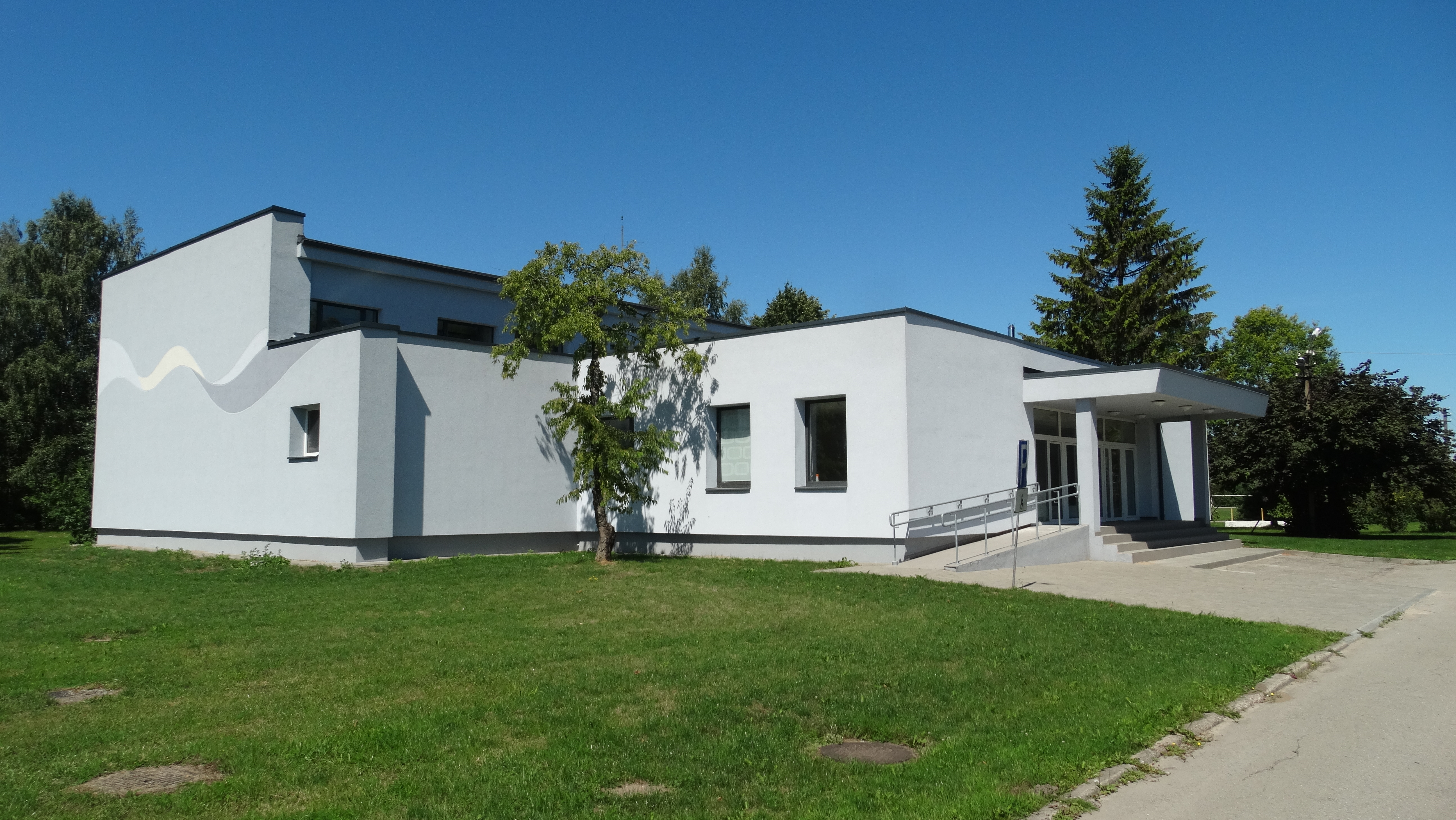 Budraičiai, swimming pool, Kelmė district, Lithuania